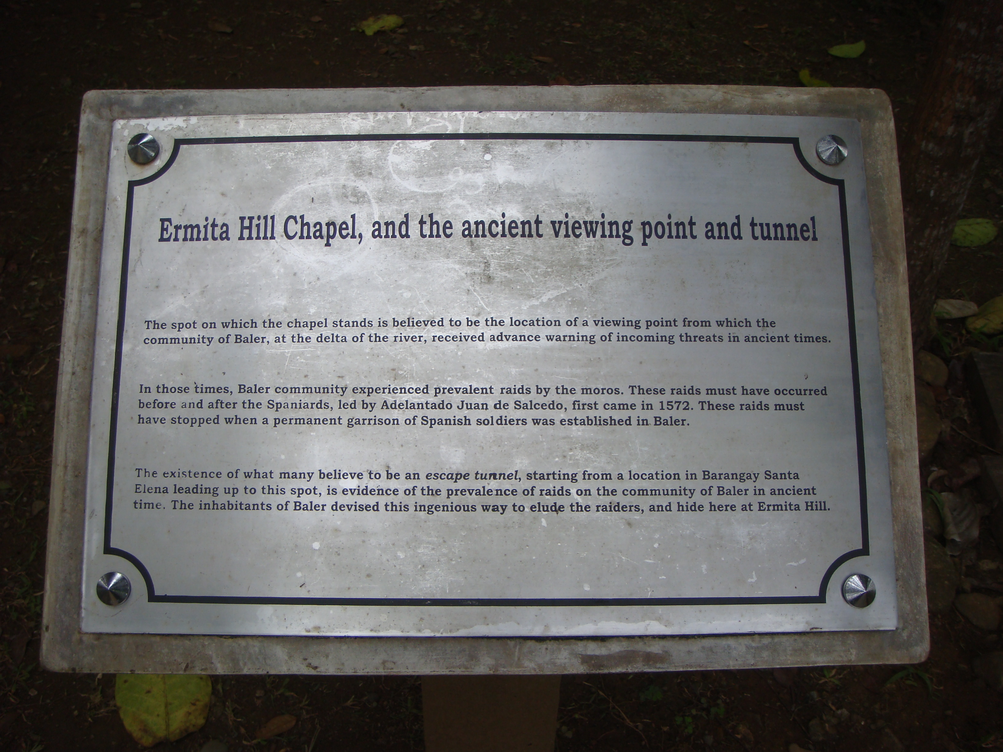 The Ermita Hill chapel and the ancient viewing point and tunnel site is said to be Old Baler, Aurora, Philippines' watchpoint and the highest peak of the old town.. With the bell tower's excellent vantage point, the people of Baler were warned of raiding pirates (moros). This historic secret tunnel devised by the people of old Baler as escape route during the frequent raids of moro pirates. The starting point is said to be from a location in Barangay Santa Elena leading up to this site at Ermita Hill.[1] The underground tunnel enabled the families to run to Ermita Hill, safe from the tsunami which was named Tromba Marina (tidal wave) that struck this town in 1735.[2] The tunnel leads to Baler's Sitio Castillo that was used as a garrison by Spanish forces. The Spaniards improved the tunnel in the 17th century, but it was originally built by the aboriginal Dumagat, the first settlers of Aurora, to provide an escape path for residents running from pirates coming in from the bay.[3]